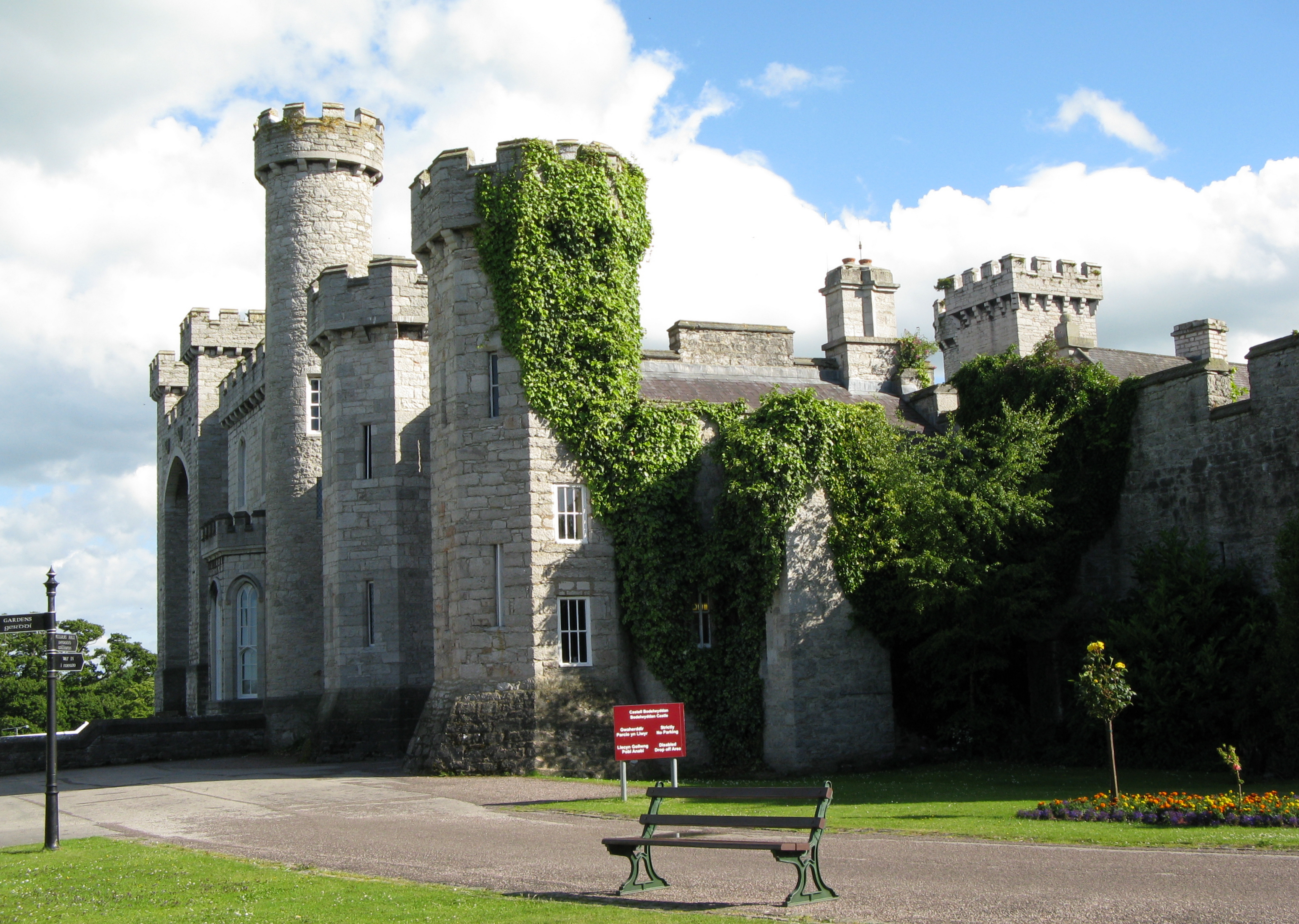 Part of Bodelwyddan Castle, Denbighshire, Wales. Owned by Warner Leisure Holidays, a company of the Bourne Leisure Group. Photographed by Adrian Pingstone in June 2008 and placed in the public domain.